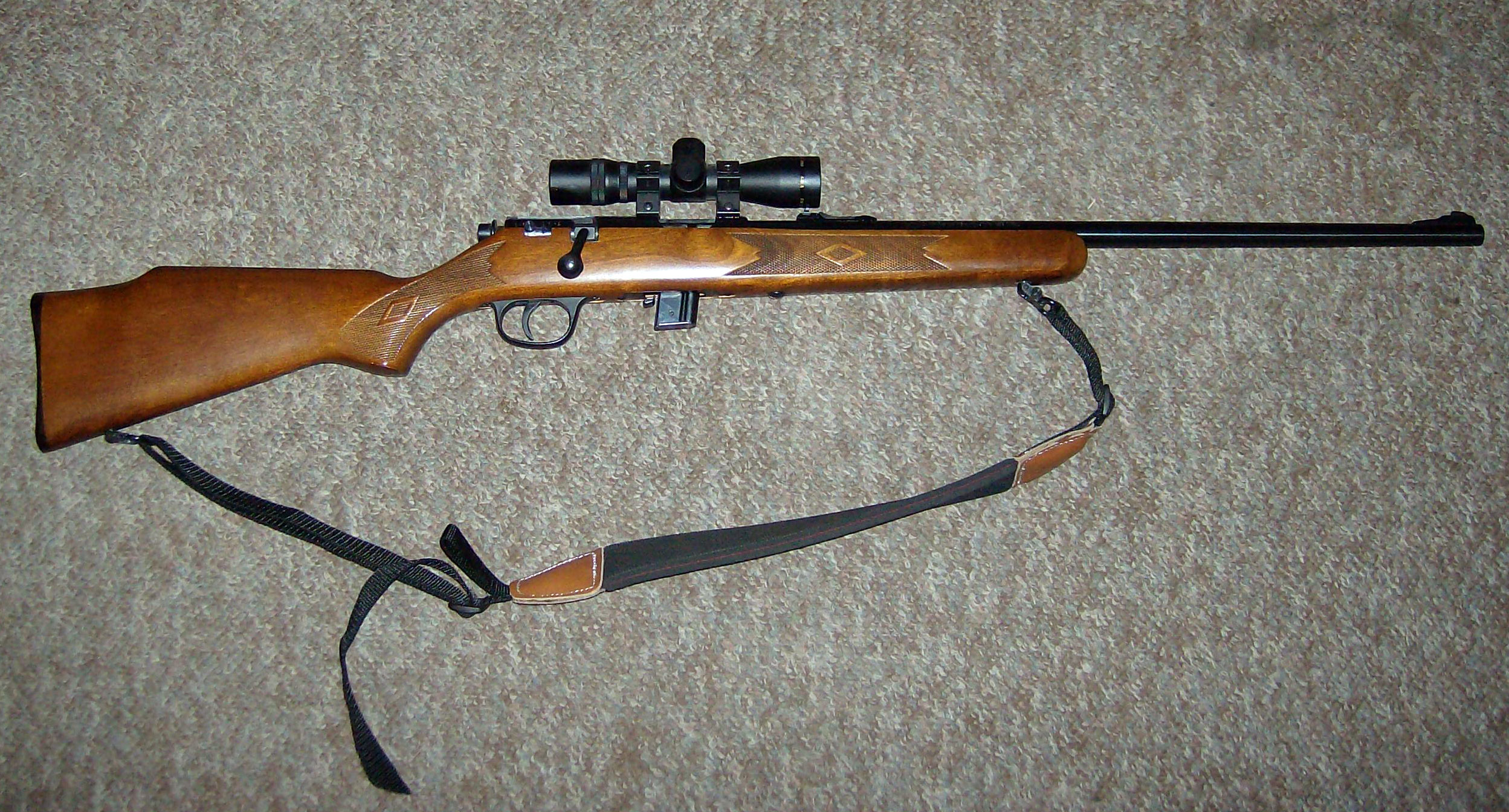 A Marlin 25N bolt action .22LR rifle. This example has an aftermarket scope and sling.